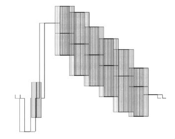 Bars analogue signal with a reflection.